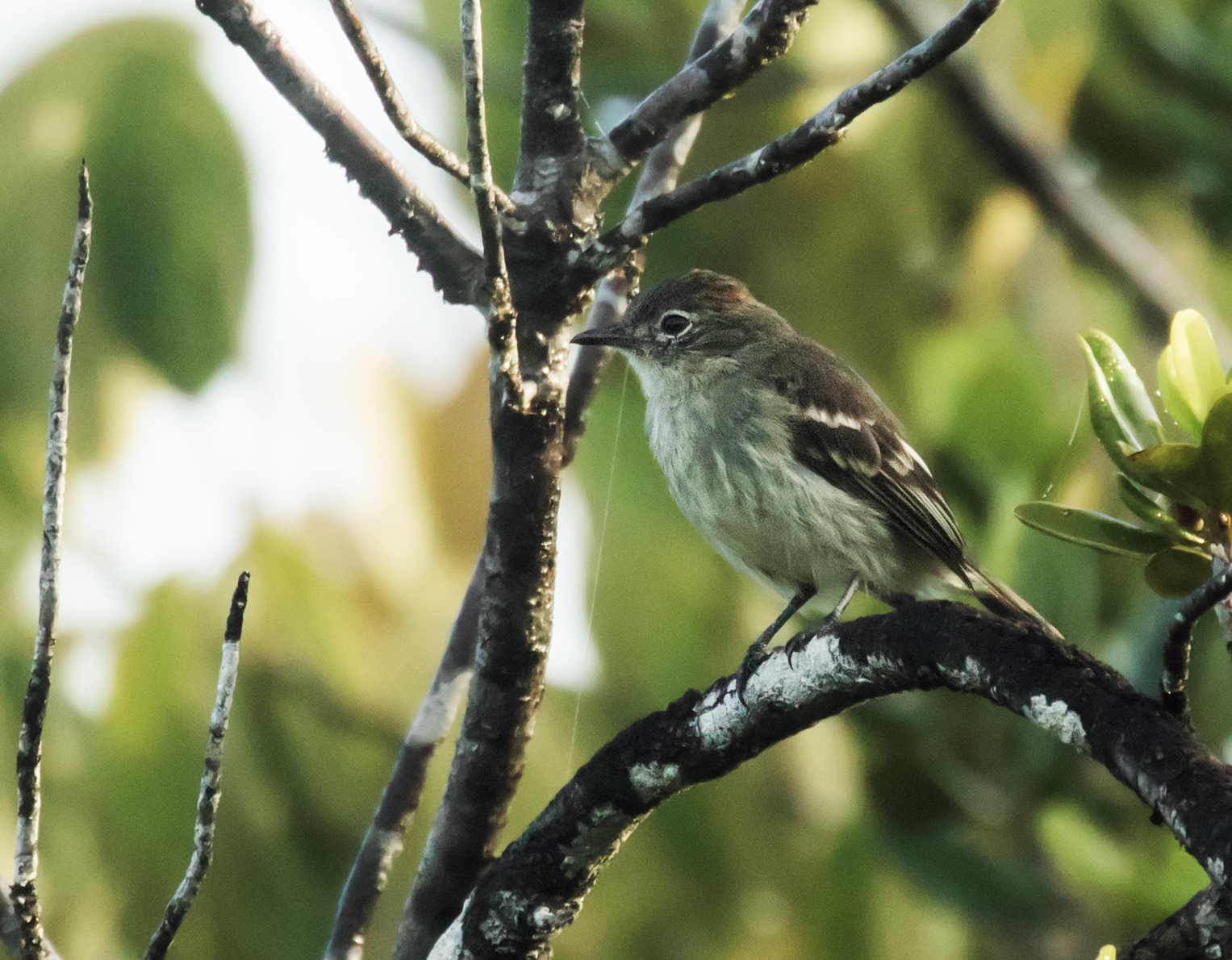 Rufous-crowned Elaenia from Powakka, Para, Suriname.